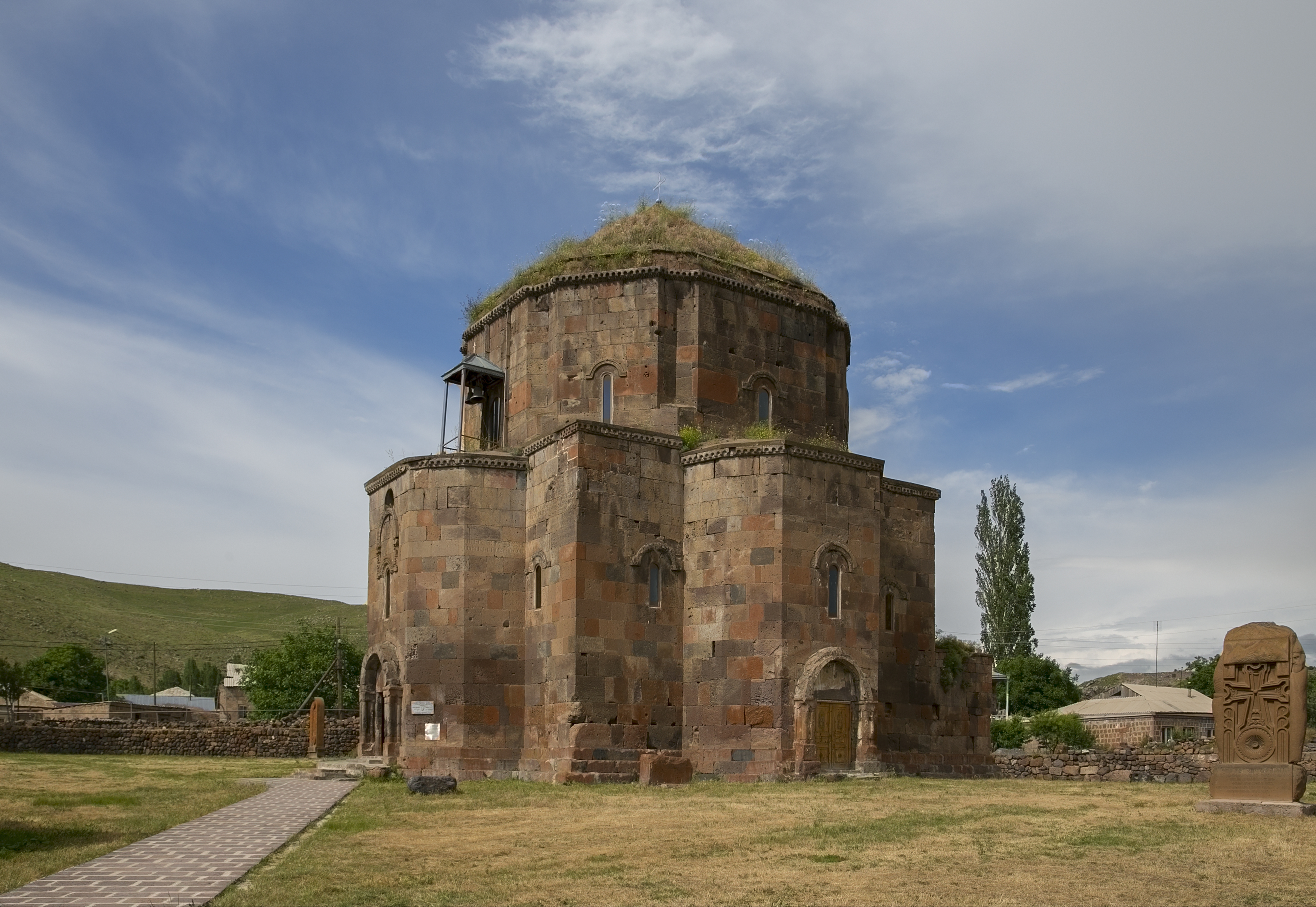 The Church of Saint John (Surp Hovanes), also known as Mastara Church, in Mastara, Armenia dates from the 5th century.